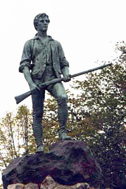 This is a photograph of the statue representing Captain John Parker sculpted by Henry Hudson Kitson and erected in 1900. This statue in Lexington, Massachusetts is commonly called "The Lexington Minuteman." It is often confused with the Daniel Chester French statue The Minute Man in nearby Concord (shown at right).